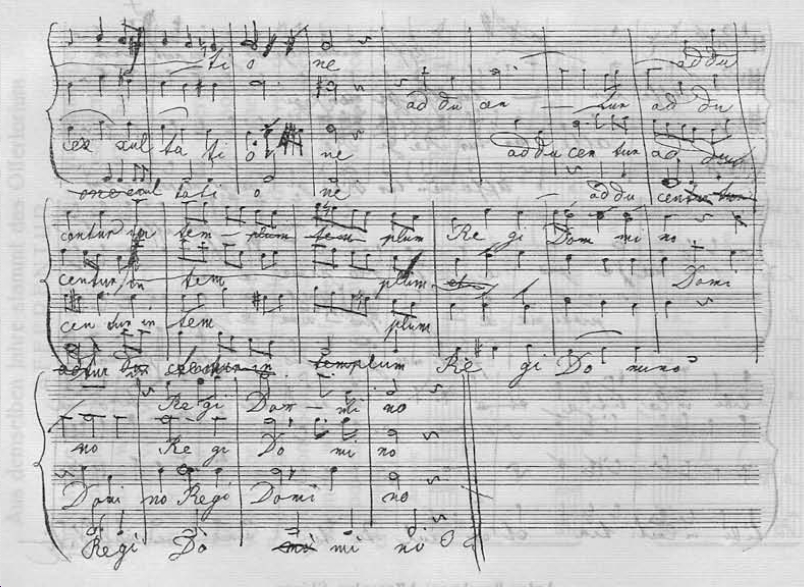 Sketch of Afferentur regi, page 2